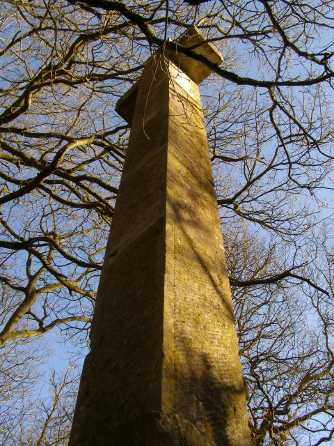 Deadmans Plack Monument, Harewood Forest. This monument is described by Hampshire Treasures as an obelisk surmounted by a stone cross and dated 1835; erected to the memory of Earl Athelwold who was killed here by King Edgar AD963. Shown for comparison with this summertime geograph 18224.